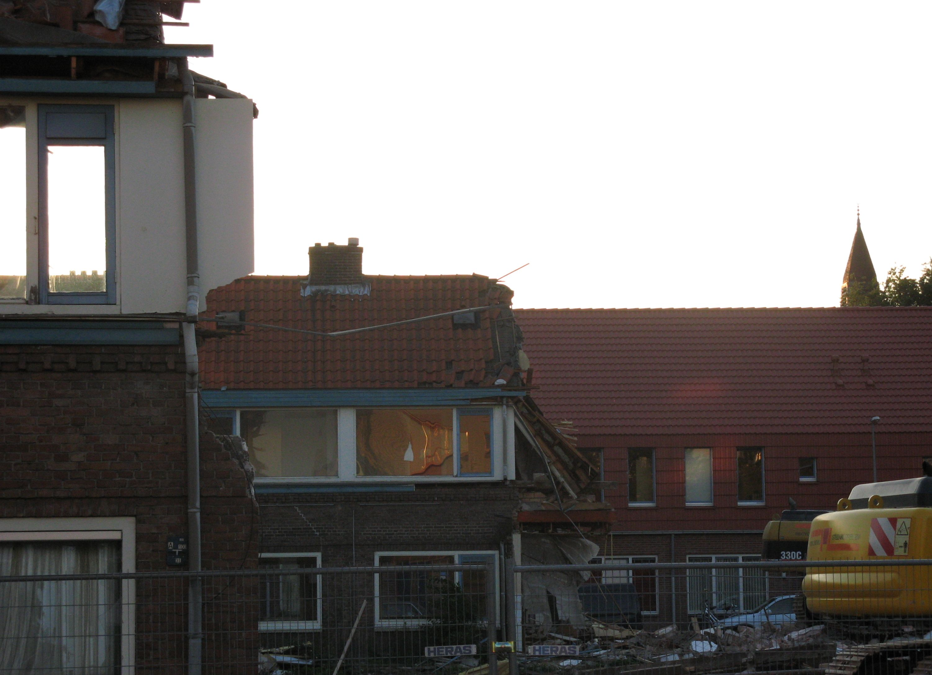 Renovation Works in Ondiep Quarter of Utrecht